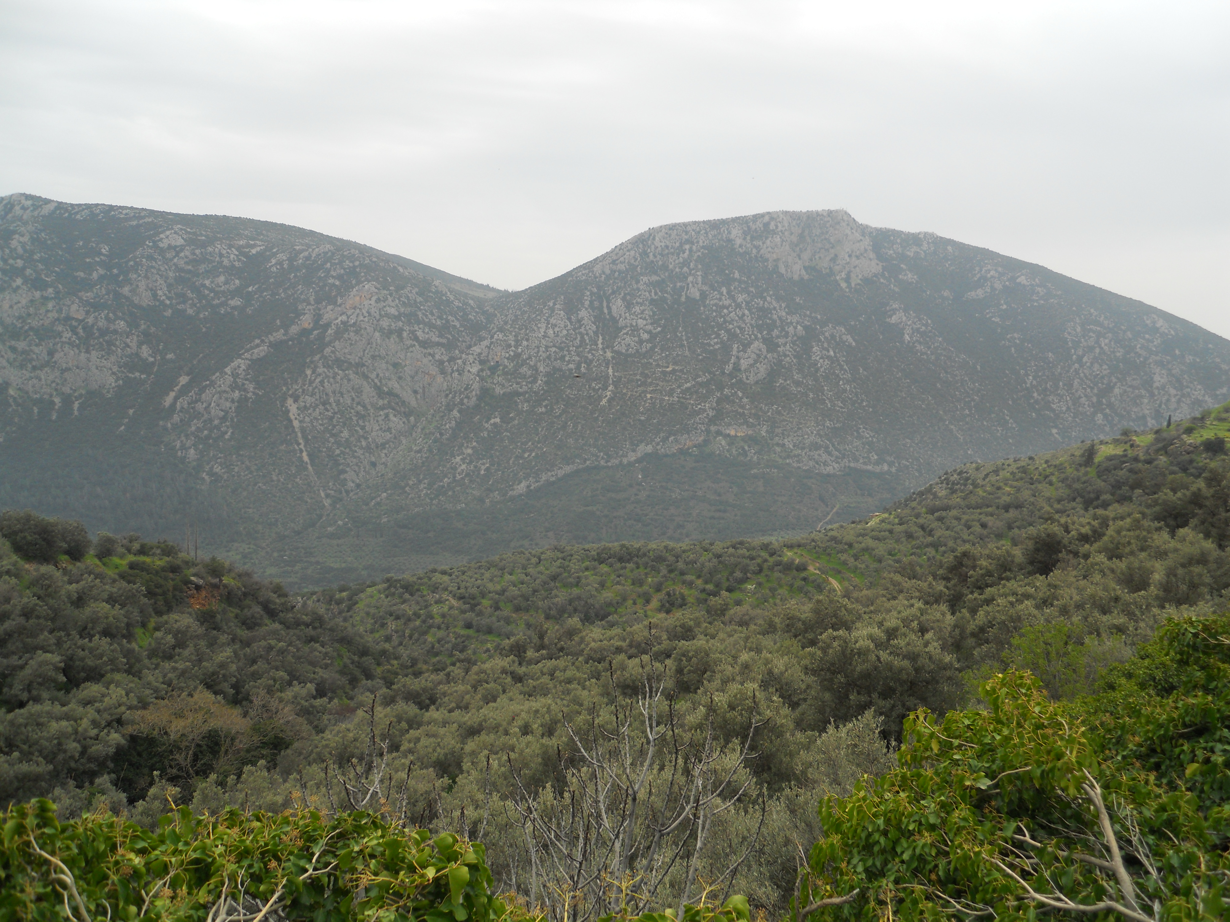 Mount Parnassus